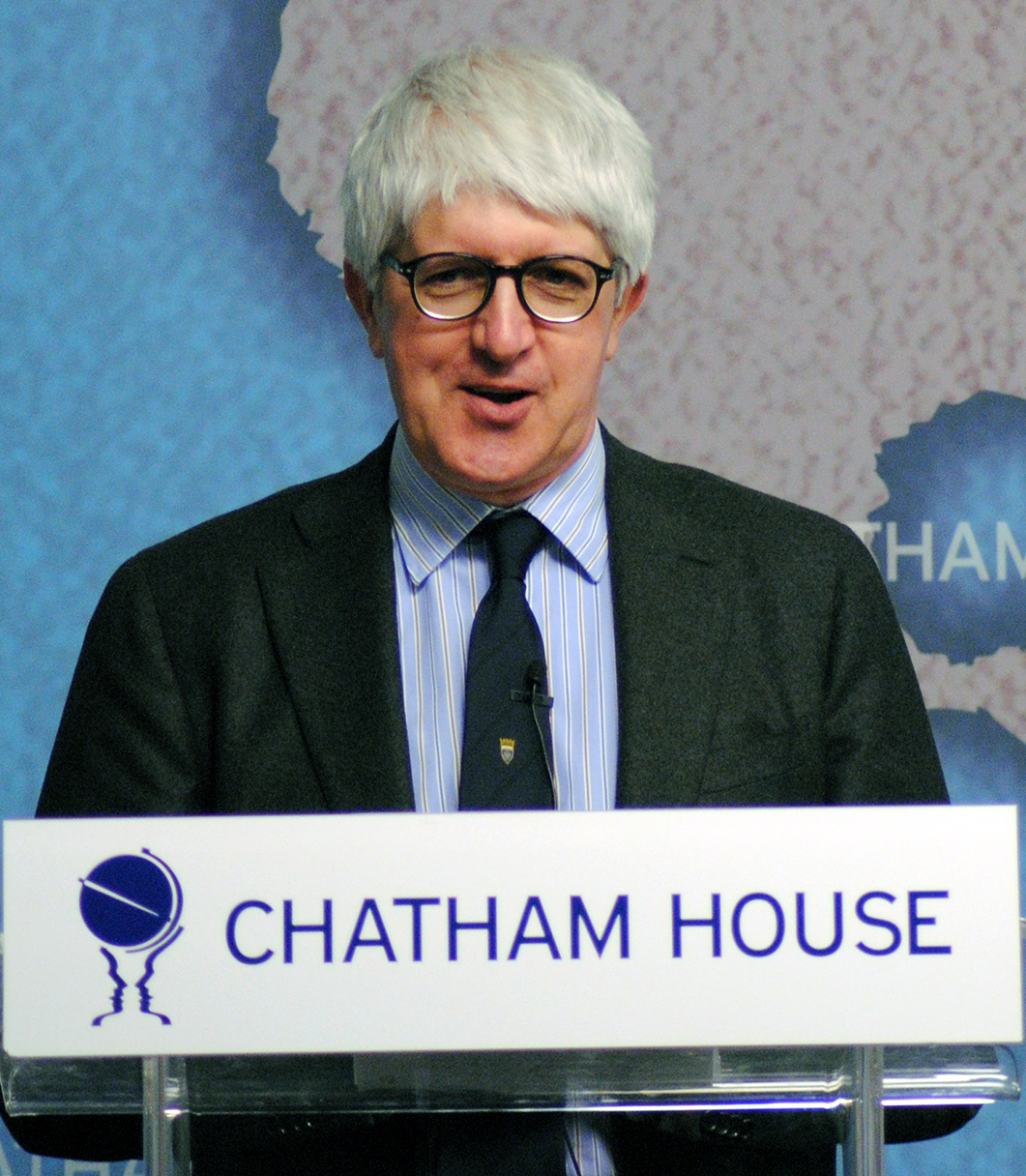 Italy's Election Explained, 10 April 2013 (cht.hm/170ACux).